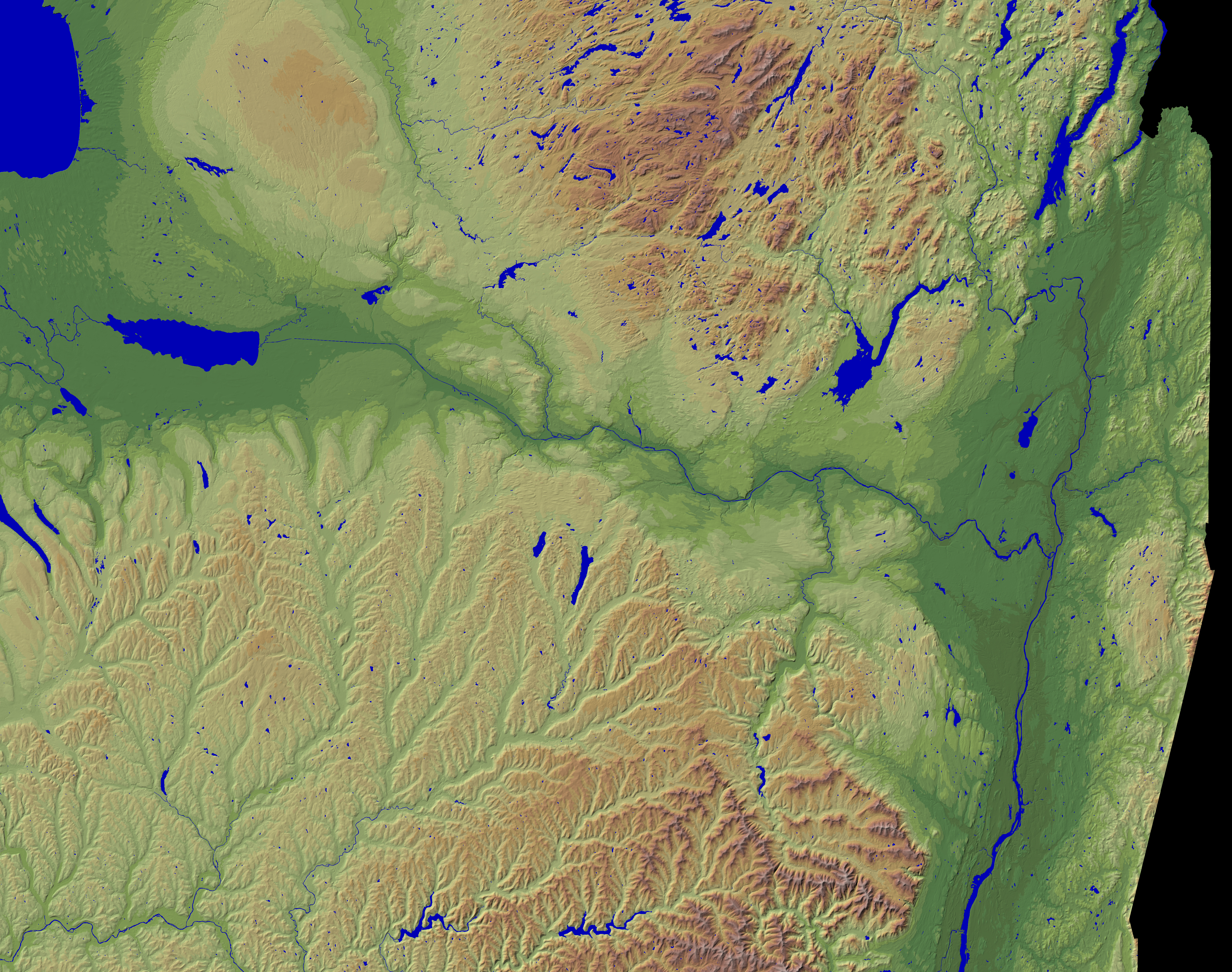 Closeup of the Capital District of New York, USA, showing terrain relief around the Mohawk and Hudson River Valleys.